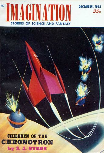 Magazine cover of Imagination December 1952 issue.